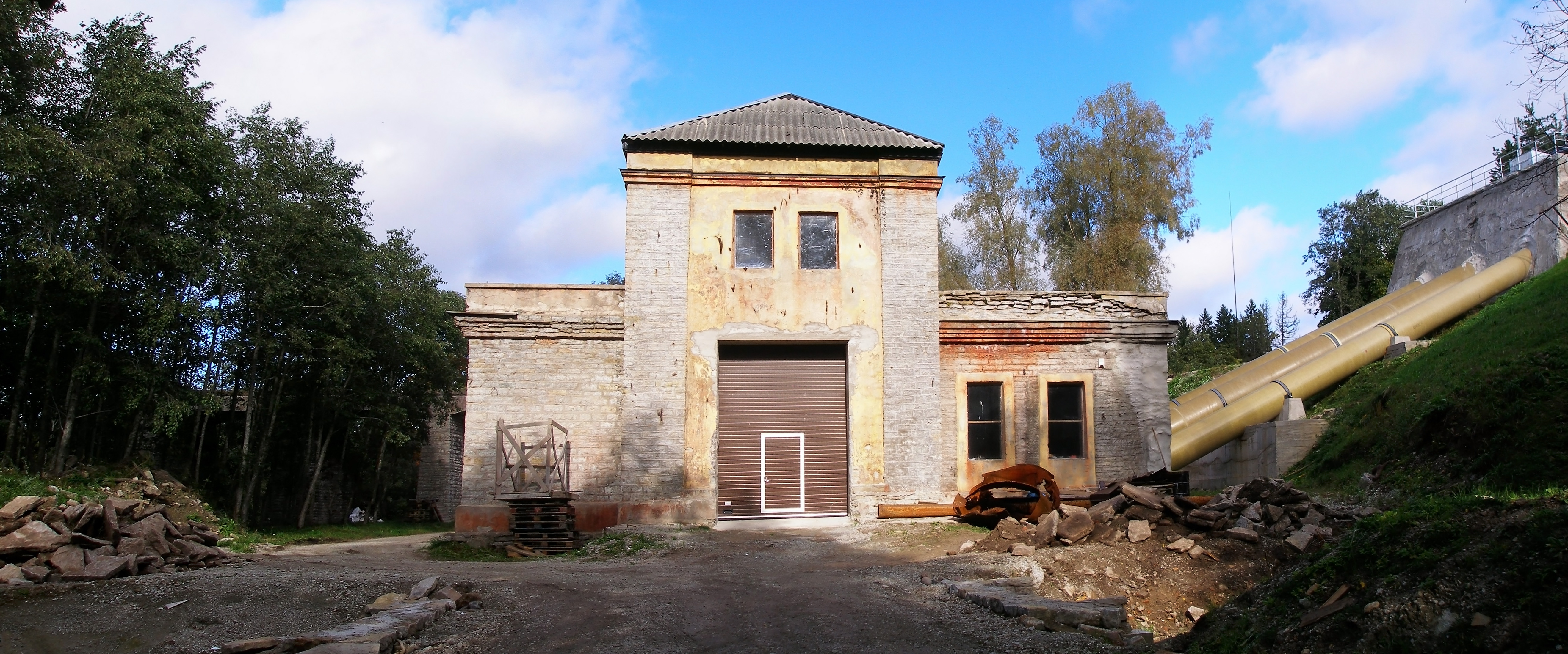 Jägala HEP near Jägala Waterfall, Estonia undergoing renovation. The site was used for filming Tarkovsky's Stalker.